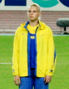 World Athletics Championships 2007 in Osaka - the participants in the women's discus throwing final: Natalya Fokina-Semenova